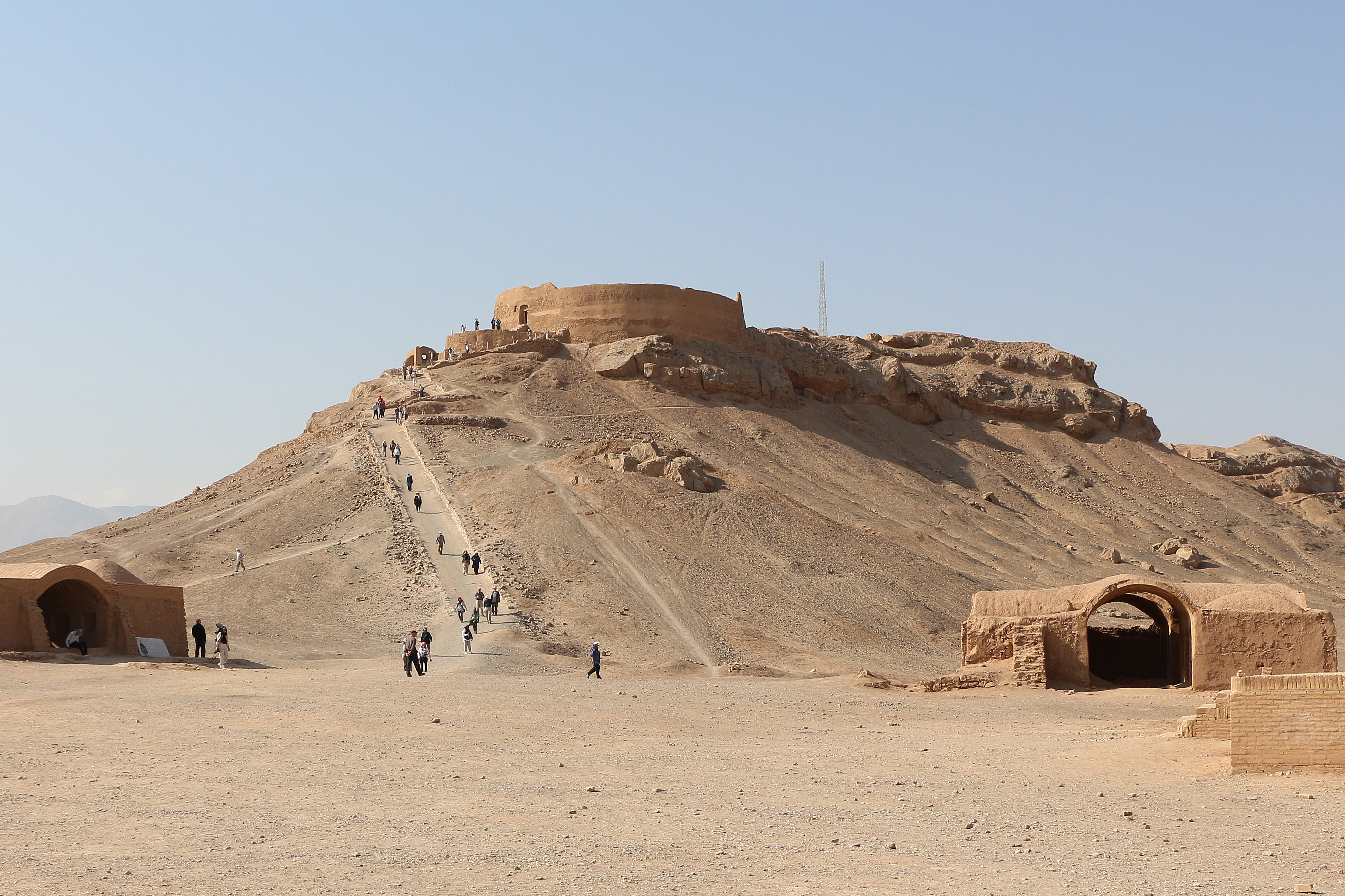 The western Tower of Silence, Yazd, Iran